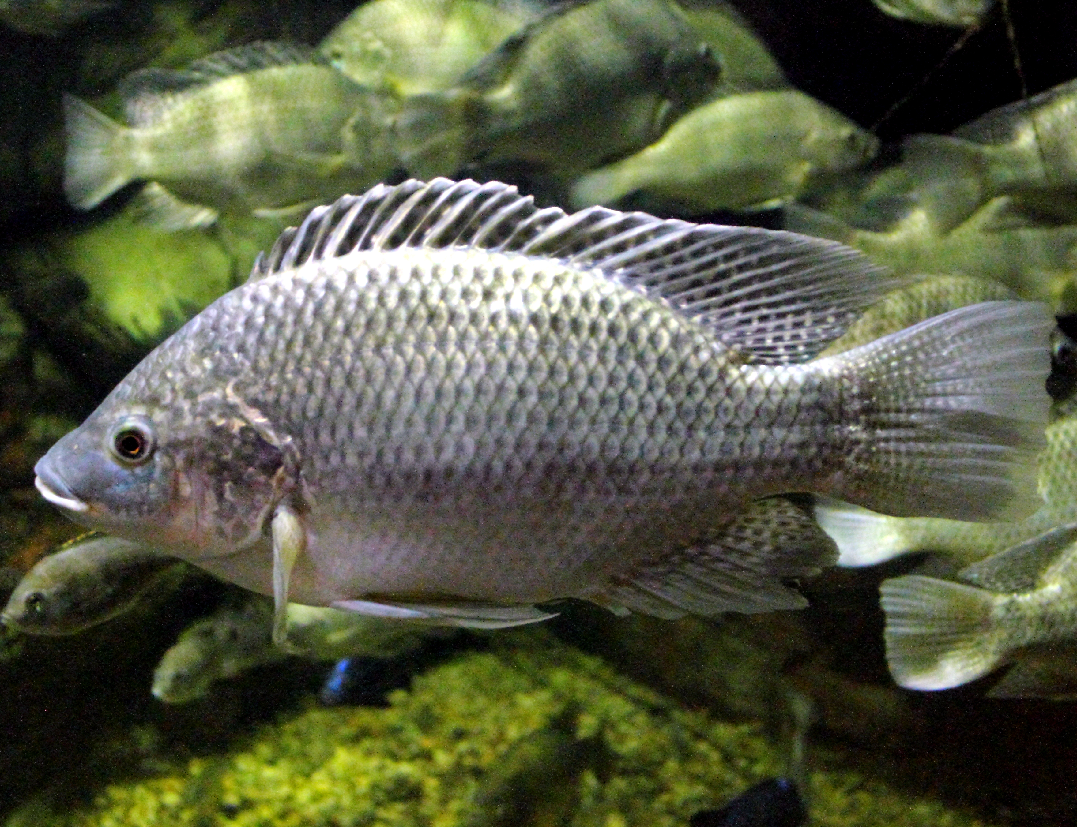 Oreochromis mossambicus or Mozambique Tilapia at the Cincinnati Zoo.